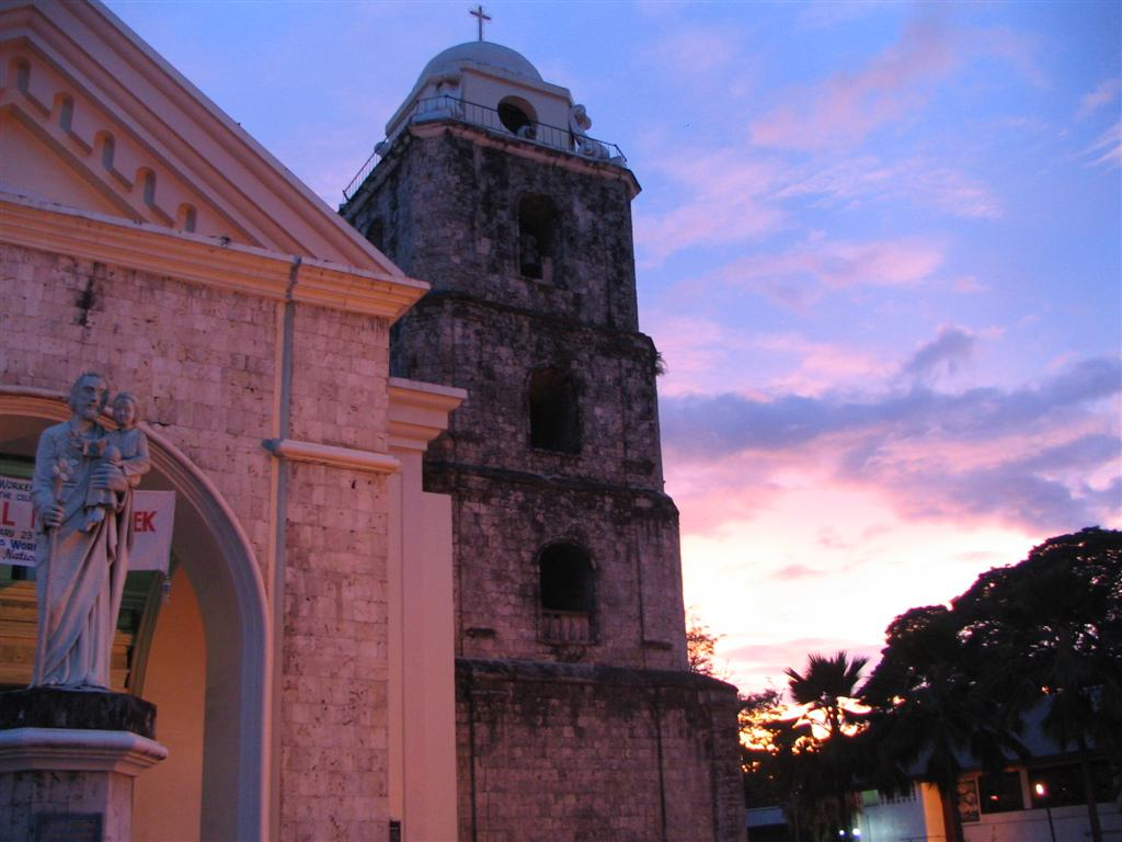 Saint Joseph the Worker Cathedral in Category:Tagbilaran City, Category:Bohol, Philippines